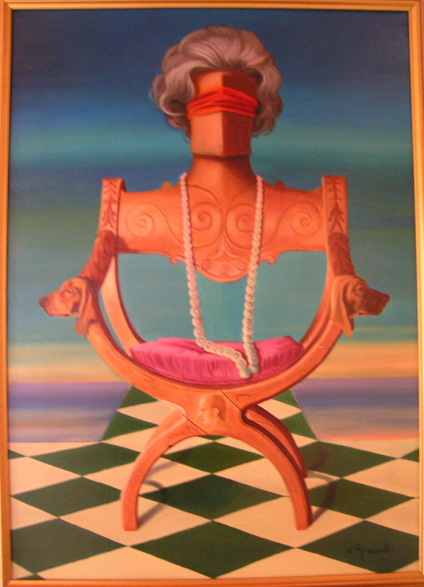 Work of the Italian painter William Girometti, title: "Portrait of unknown lady", 1972, oil on canvas, cm. 50x70 - owned by his daughter.